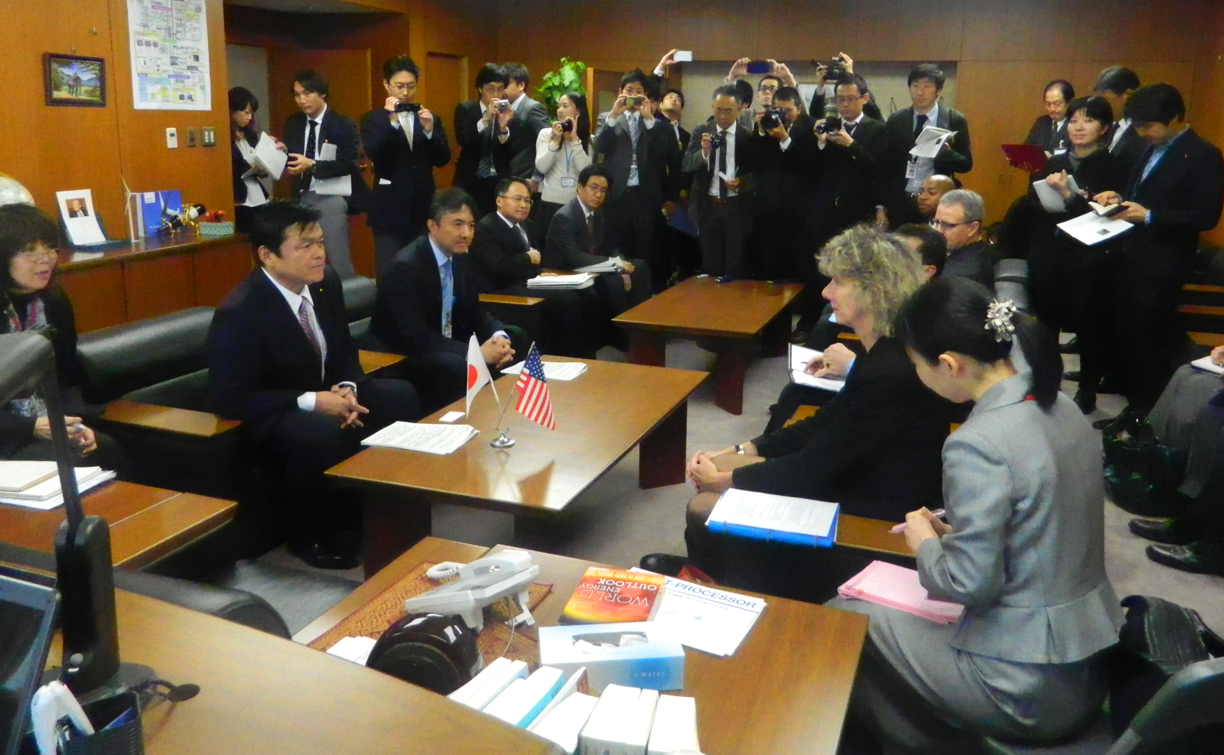 Japanese reporters and photographers record the opening minutes of a meeting between NRC Chairman Allison Macfarlane (right) and Japanese State Minister of Economy, Trade and Industry Kazuyoshi Akaba (left). The two discussed issues related to the March 2011 accident at the Fukushima Dai-Ichi nuclear reactor complex. To learn more about NRC's International Programs go to Visit the Nuclear Regulatory Commission's website at To comment on this photo go to